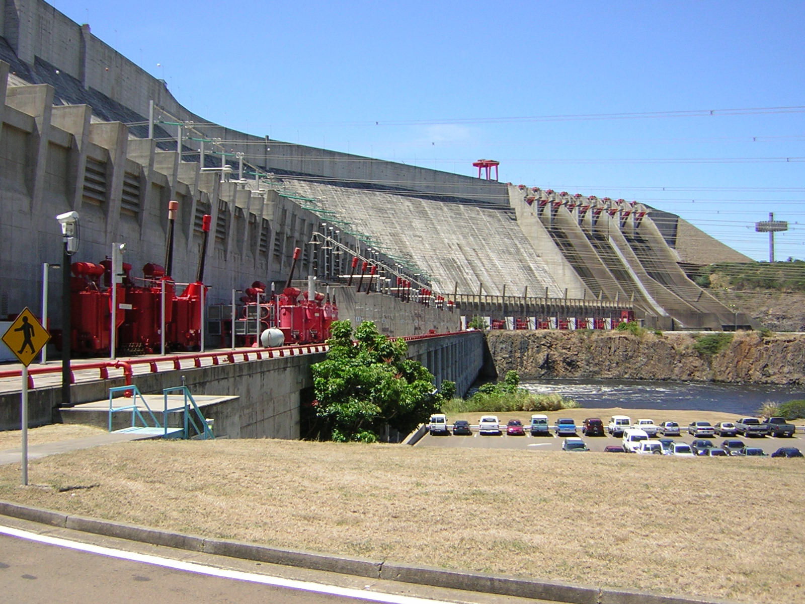 Panoramic view of the 10000MW Guri Dam in Venezuela, also called "Simón Bolívar"